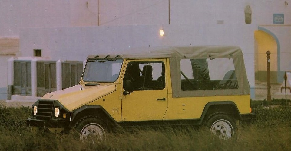 UMM Alter I